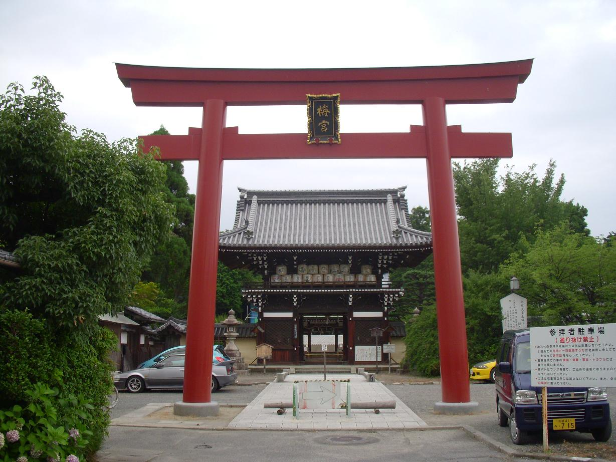 Umenomiya Taisha ToriiGate